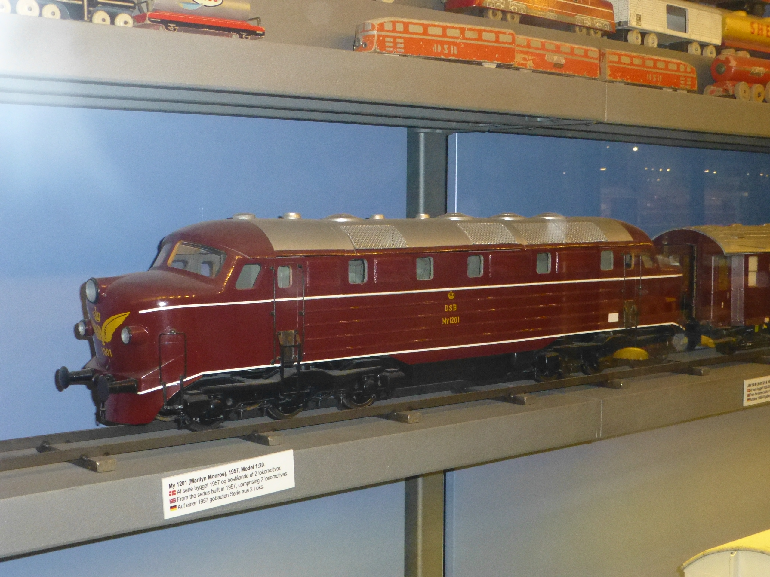 Model of the diesel locomotive DSB MY 1201 from 1957 in Danmarks Jernbanemuseum.